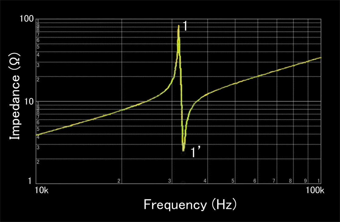 Resonant frequencies are observed as pairs.